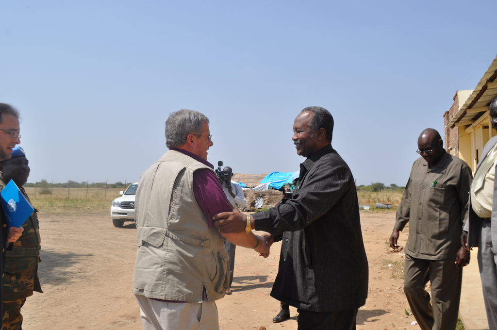 SE Gration meets Abyei Administrator Arop Mayak.